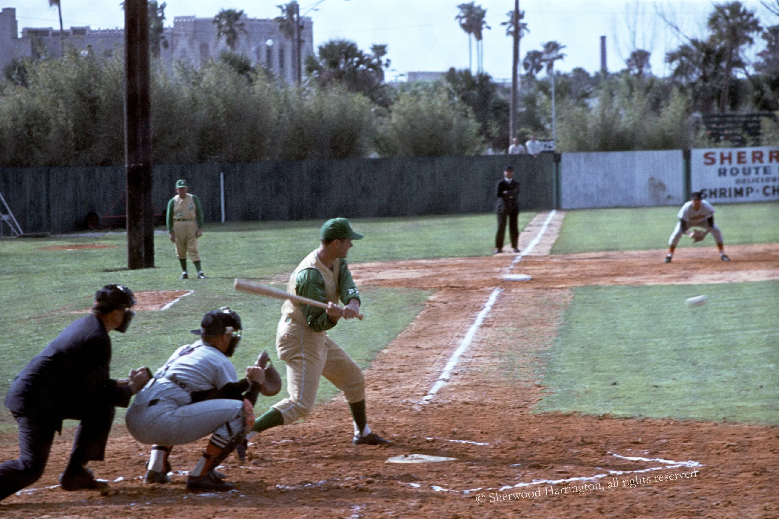 At the end of his career, trying to make the roster of the lowly Kansas City A's in spring training, 1964. Youngsters, pay attention! This is one of the best power hitters of all time; notice that his grip is a good two inches above the knob of his bat. "Choking up" like this gives you more bat control at only a slight sacrifice of long-ball power.